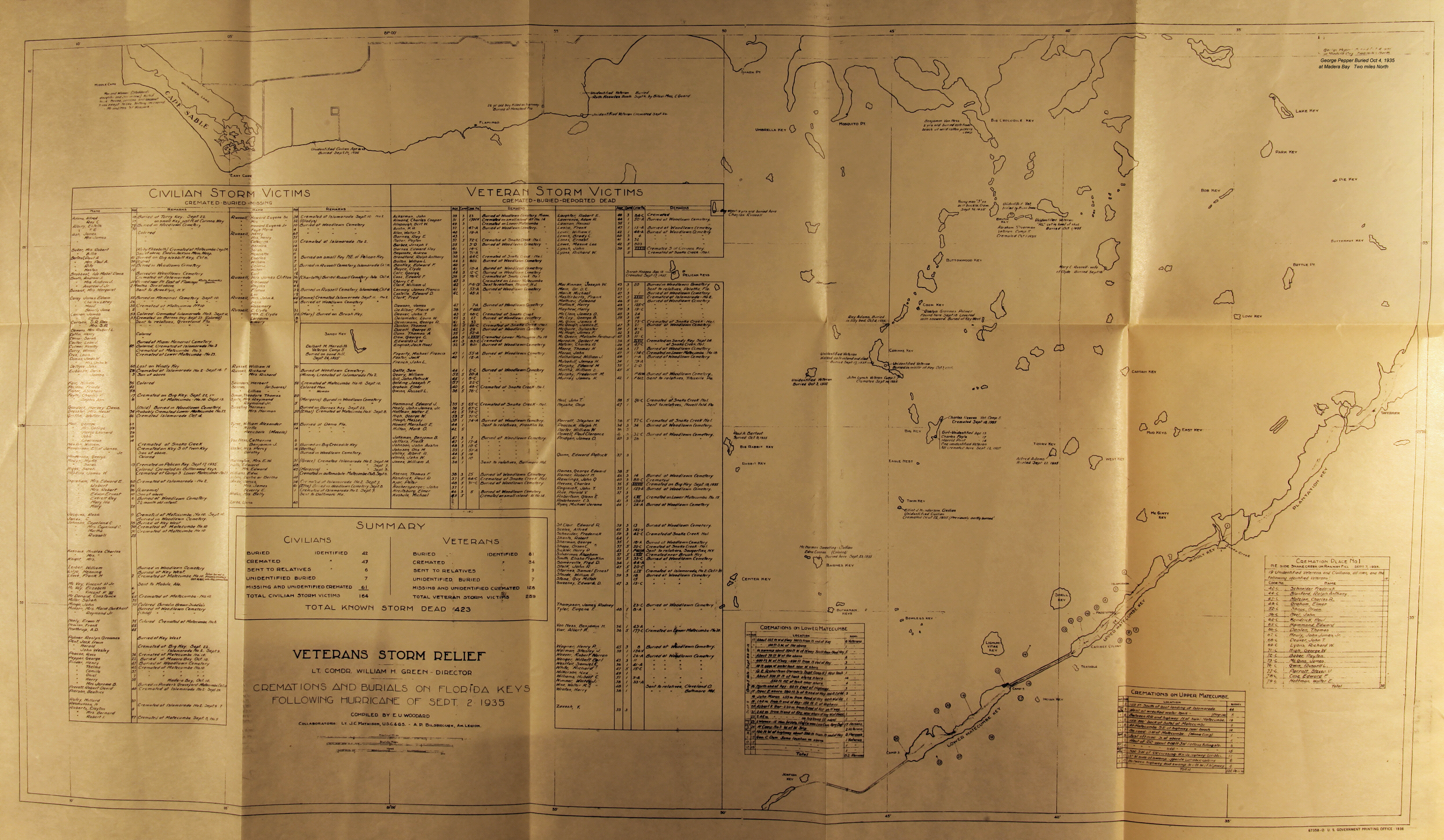 Cremations and burials on Florida Keys following hurricane of Sept. 2, 1935 (including civilians and veterans)